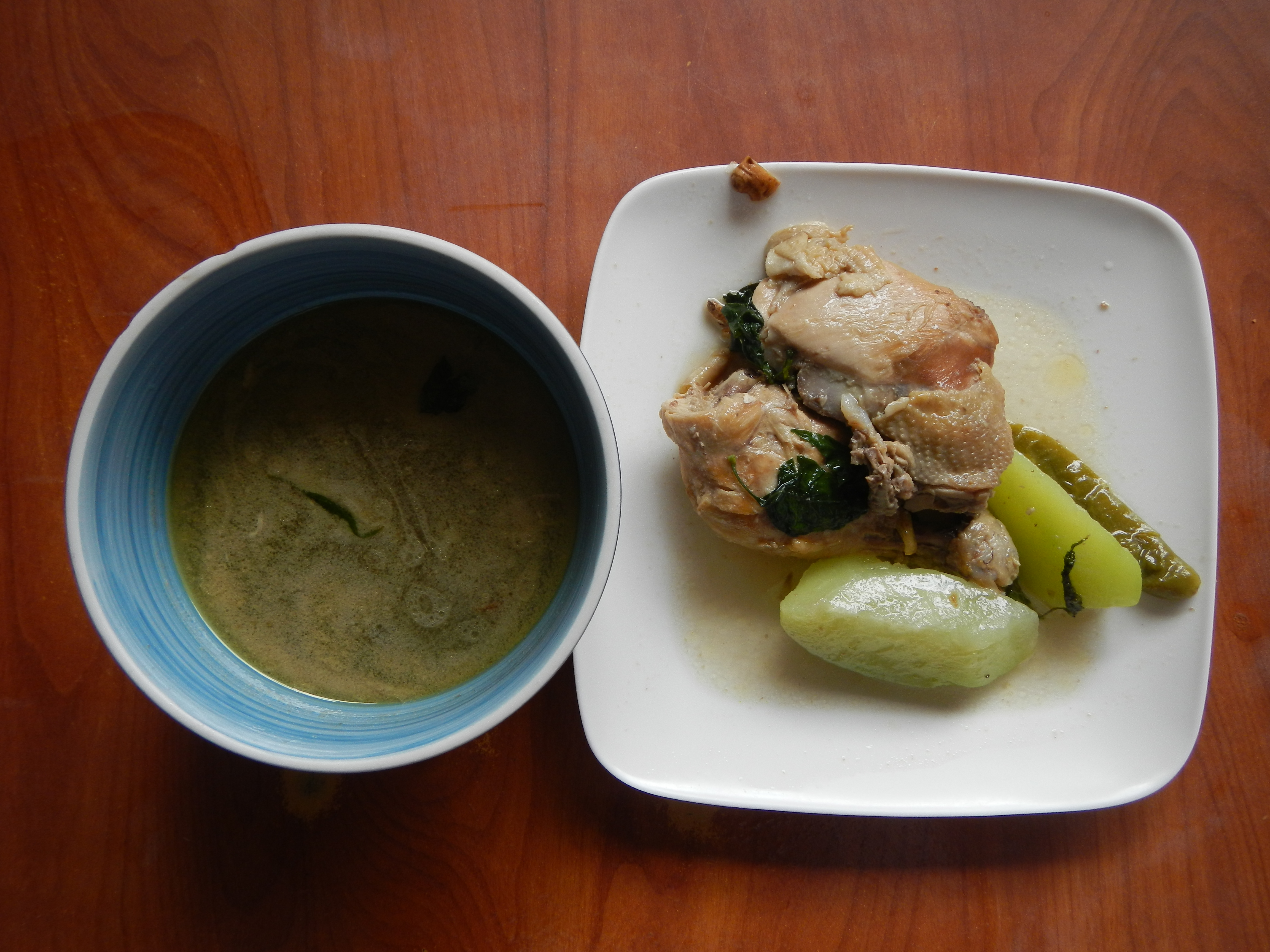 [1] Tinolang Manok, La Familia, Philippines